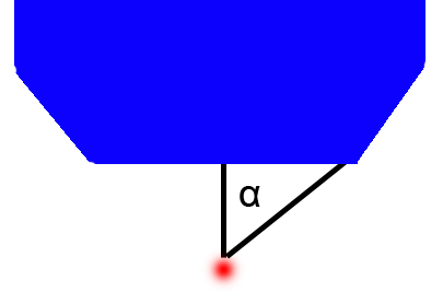 Scheme of the half-acceptance angle alpha of a microscope objective, here about 50°